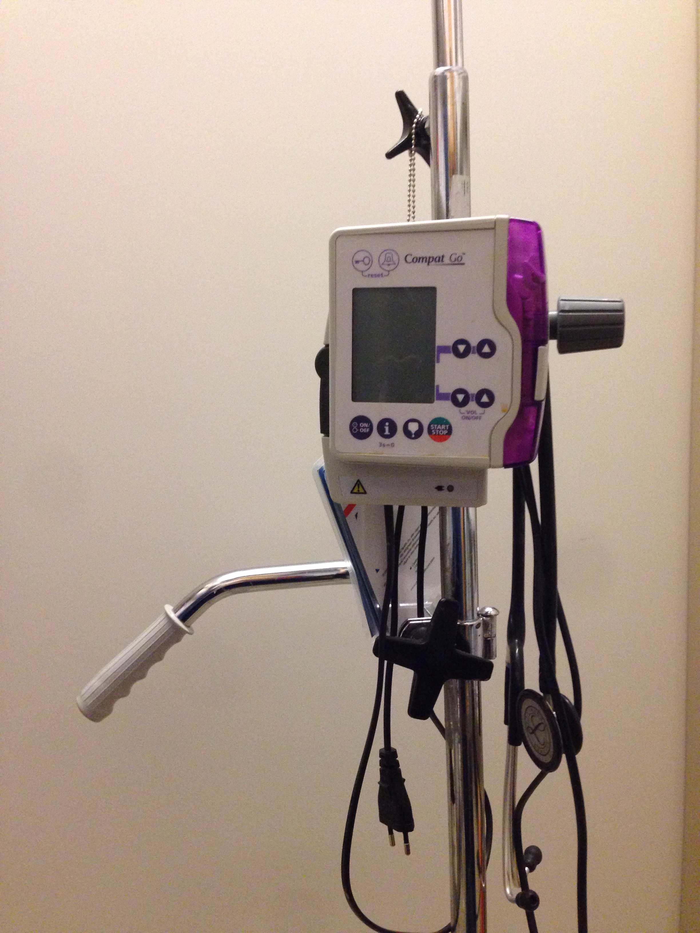 Pump for enteral nutrition